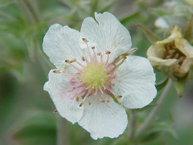 Species: Potentilla alchemilloides Family: Rosaceae Image No. 2